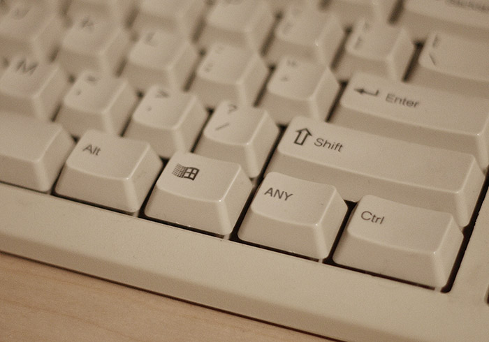 Fictional Any key on keyboard.